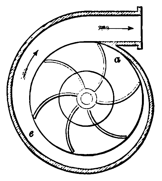 Fig. 4 from essay/book on centrifugal pumps by John Richards, 1894, showing a theoretical but not so great shape for the volute casing. [1]